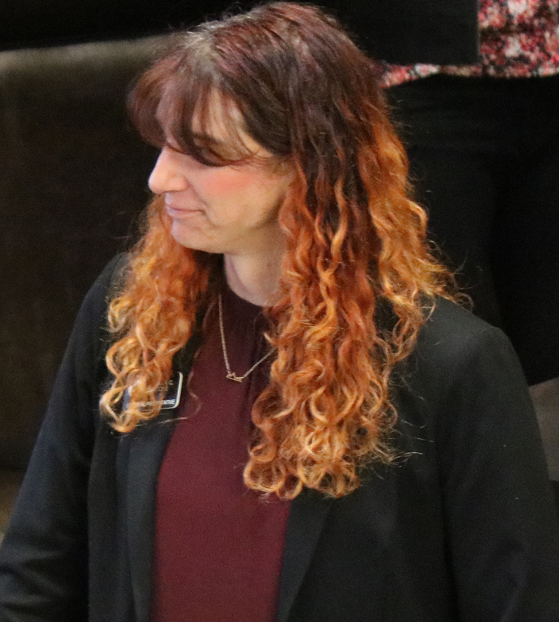 Brianna Titone, a politician from Colorado.